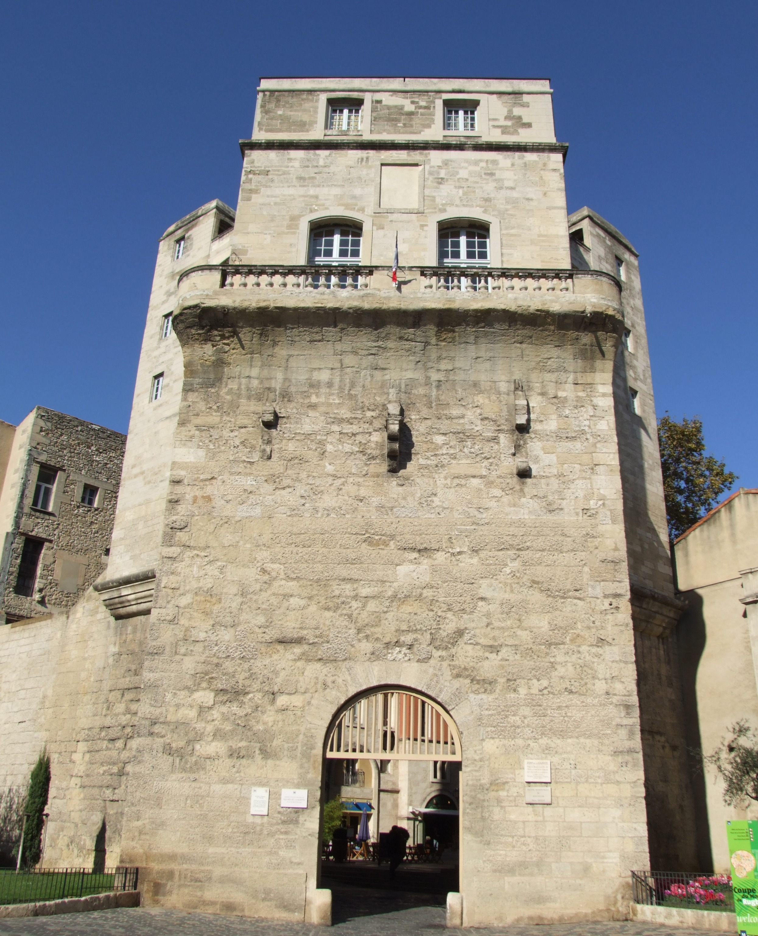 The Babote Tower, on the Commune Clôture (former city walls of the town of Montpellier). France.